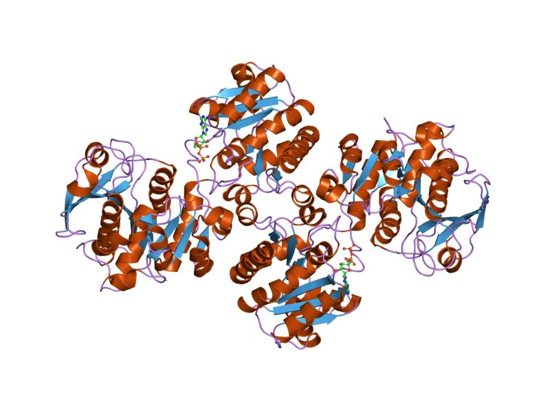 Cartoon representation of the molecular structure of protein registered with 1rzu code.